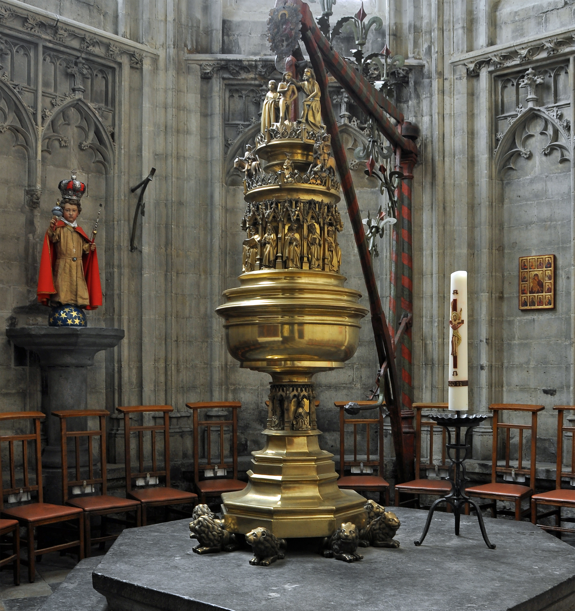 Halle (Belgium): interior of the St Martin's basilica - 15th C baptismal font